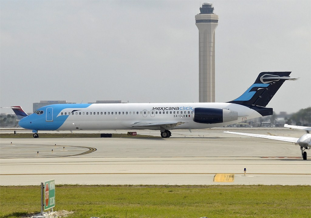 Mexicana Click Boeing 717 Taxiing at Miami International Airport (KMIA)